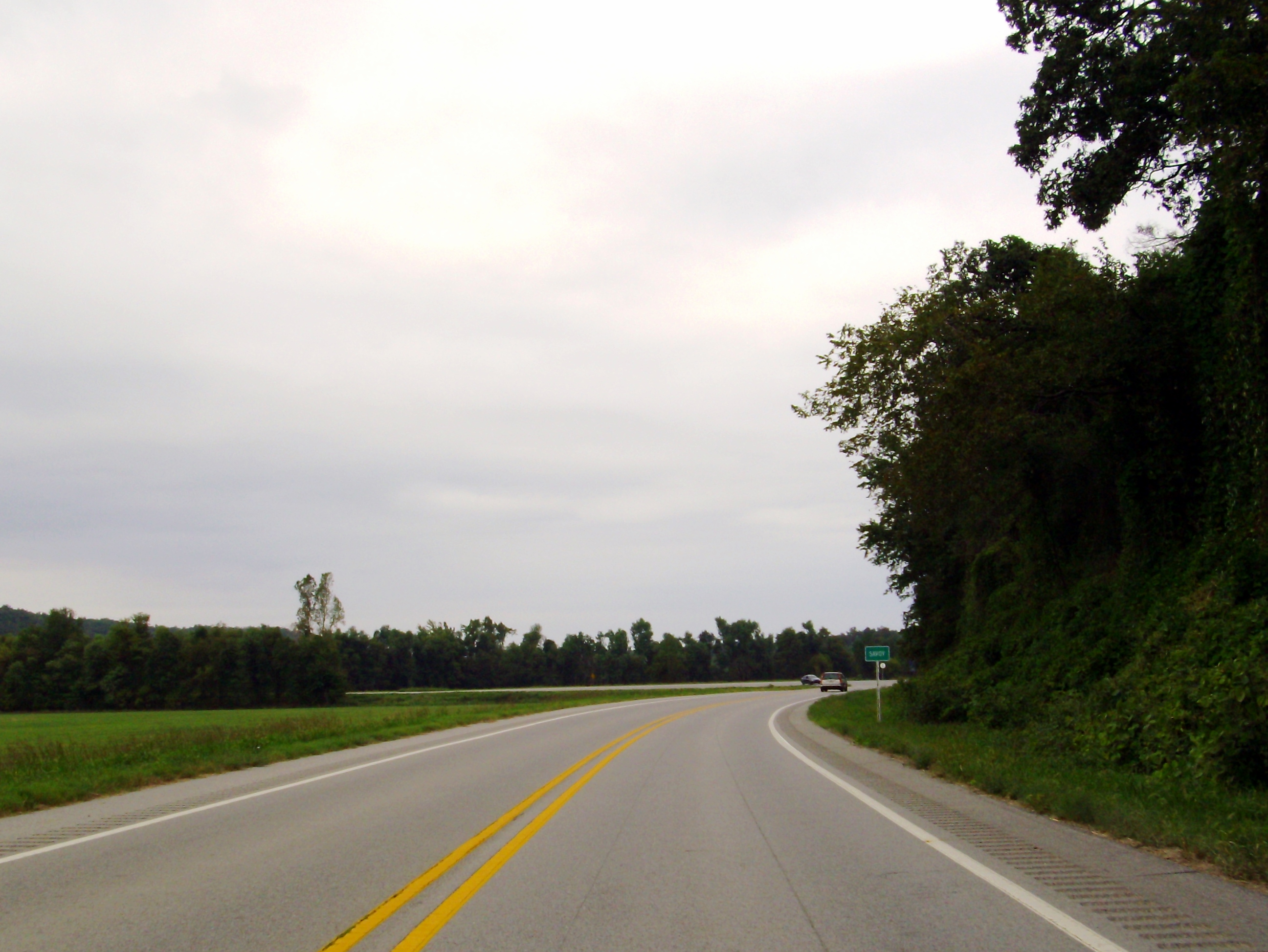 Entry sign to Savoy, Washington County, Arkansas on Highway 16.